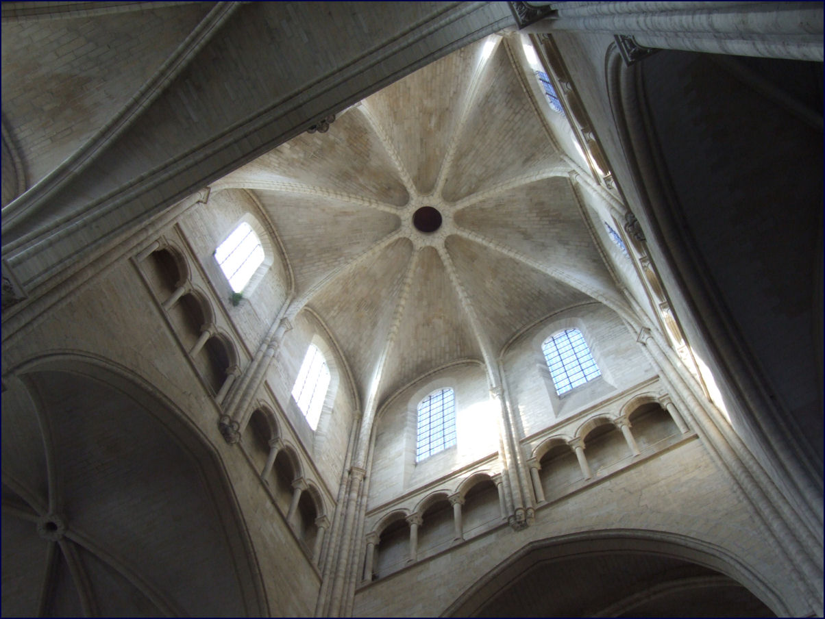 Cathédrale Notre-Dame de Laon (Cathedral Notre Dame of Laon), Laon, France - Interior